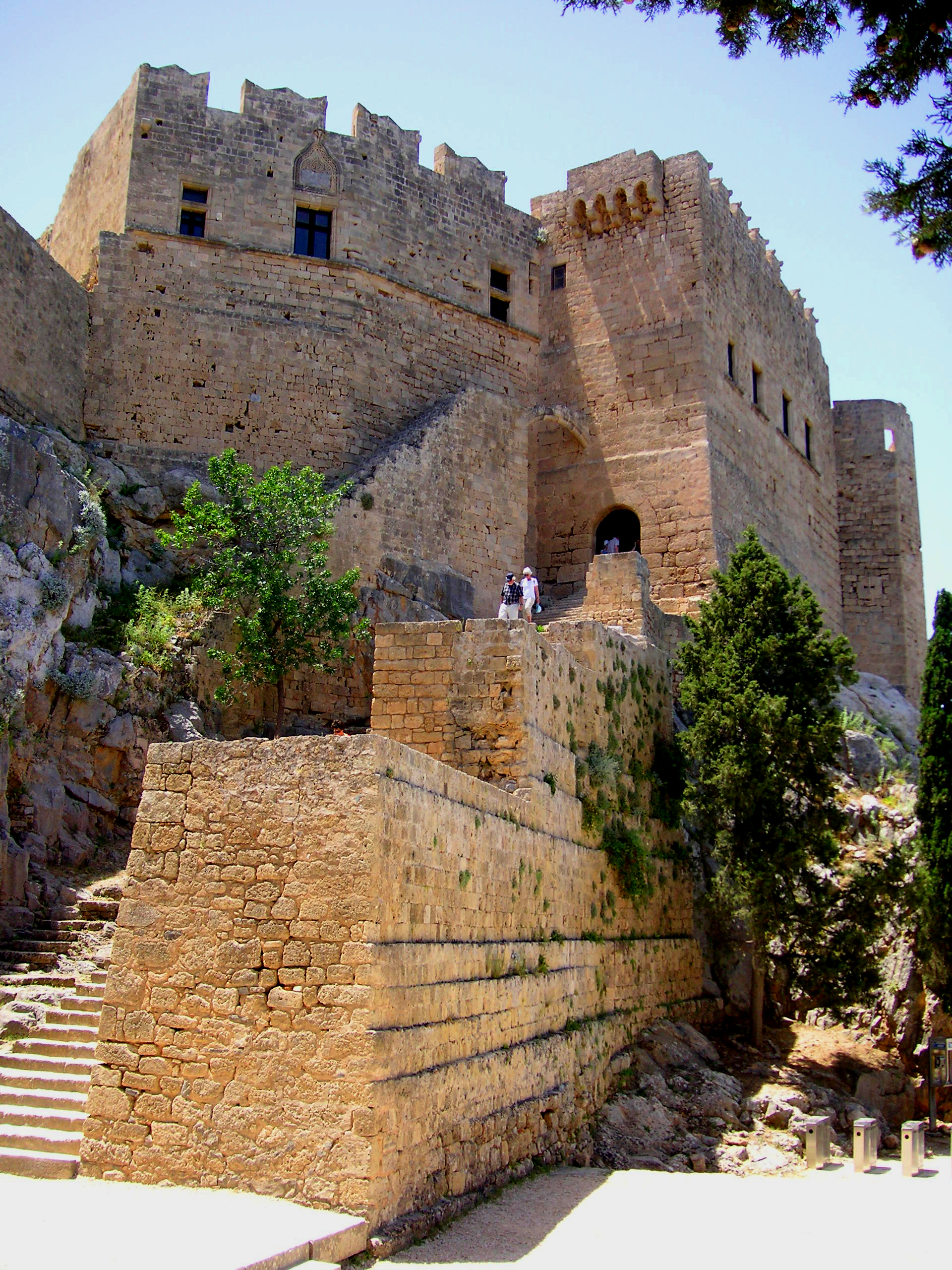 Castle of the Knights, Acropolis of Lindos, Rhodes